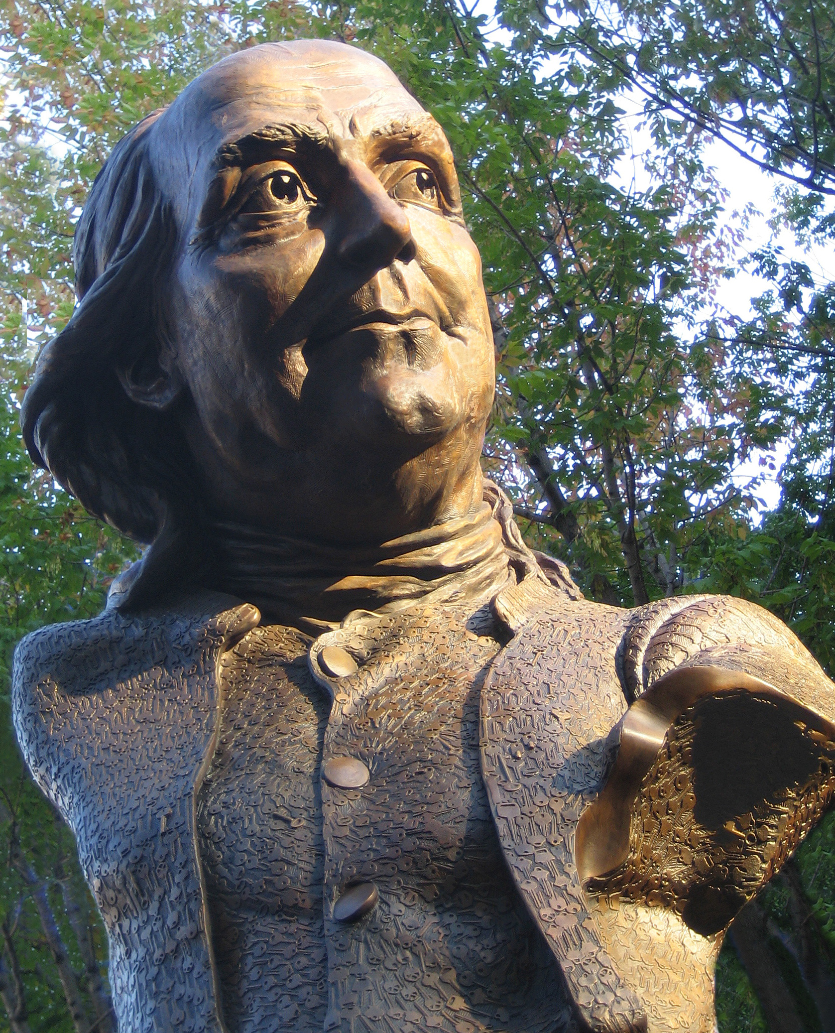 Keys To Community, a nine-foot bronze sculpture of Benjamin Franklin by James Peniston, installed in 2007 in Girard Fountain Park in the Old City neighborhood of Philadelphia, Pennsylvania. The sculpture was funded by the city's arts agency, the fire department, and a penny drive in local schools.